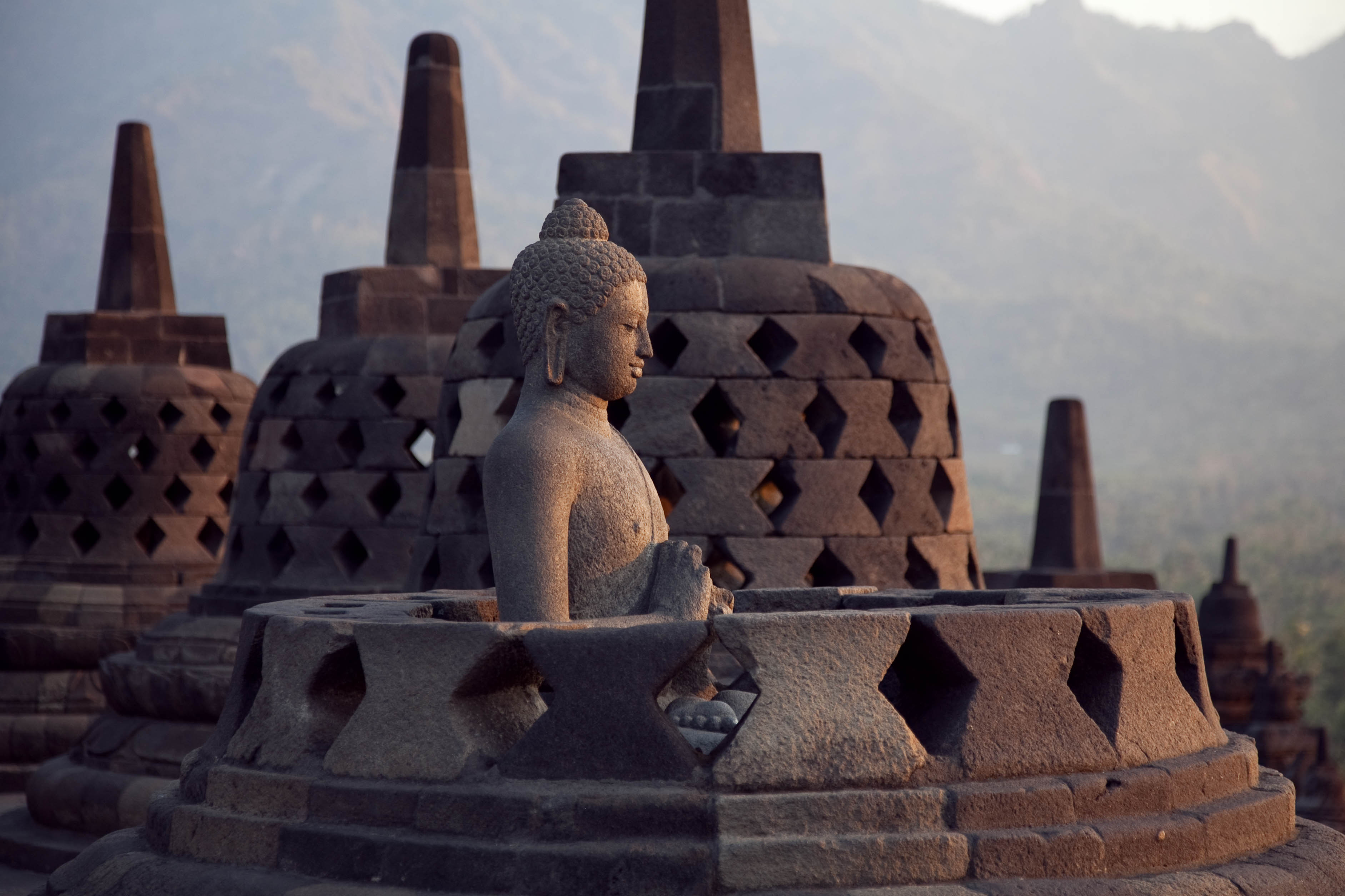 borobodur, indonesia, java island